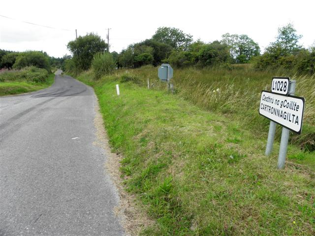 L1028 road at Cartronnagilta townland, parish of Corlough, County Cavan, Republic of Ireland. Heading WSW from the R202 road.